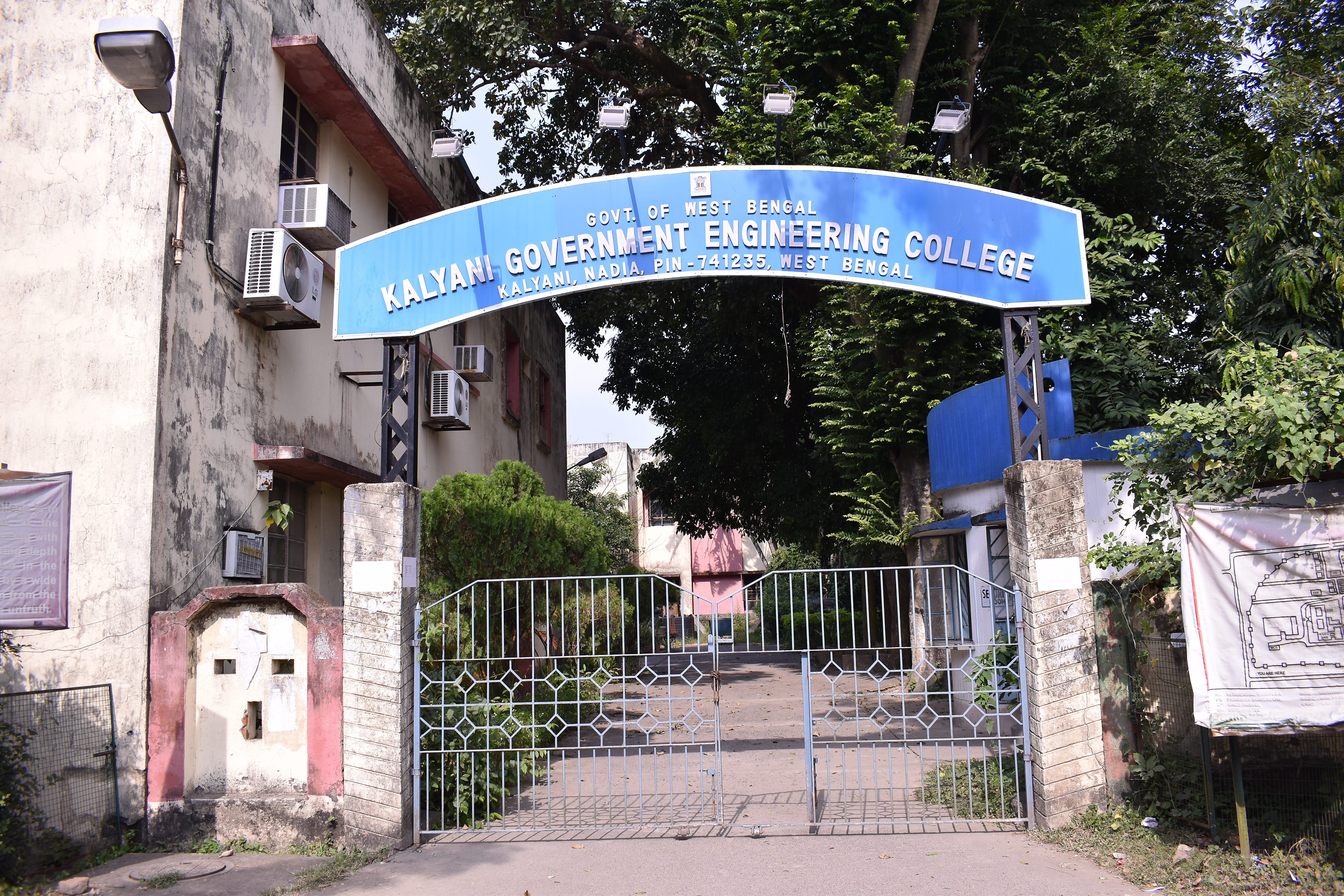 Kalyani Govt. Engineering College, inside the Kalyani university campus, Nadia